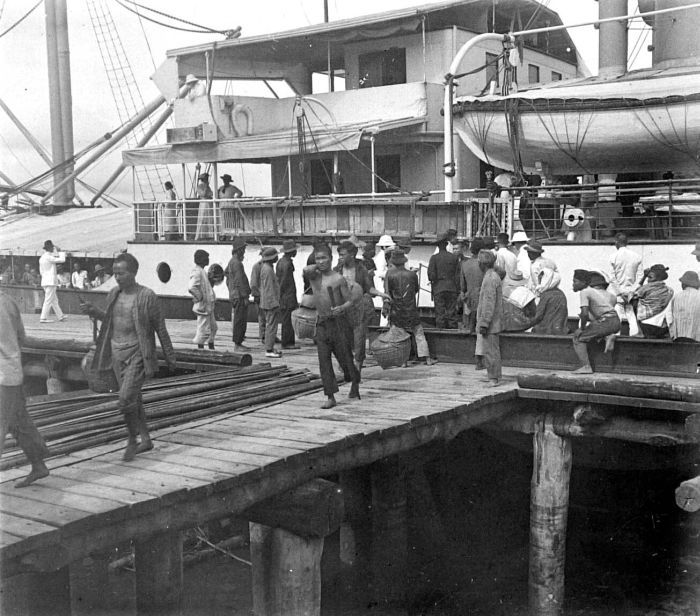 Chinese contract labourers from Shantou (China) leaving the boat 's Jacob in Belawan for working on the tobacco plantations, Sumatra.